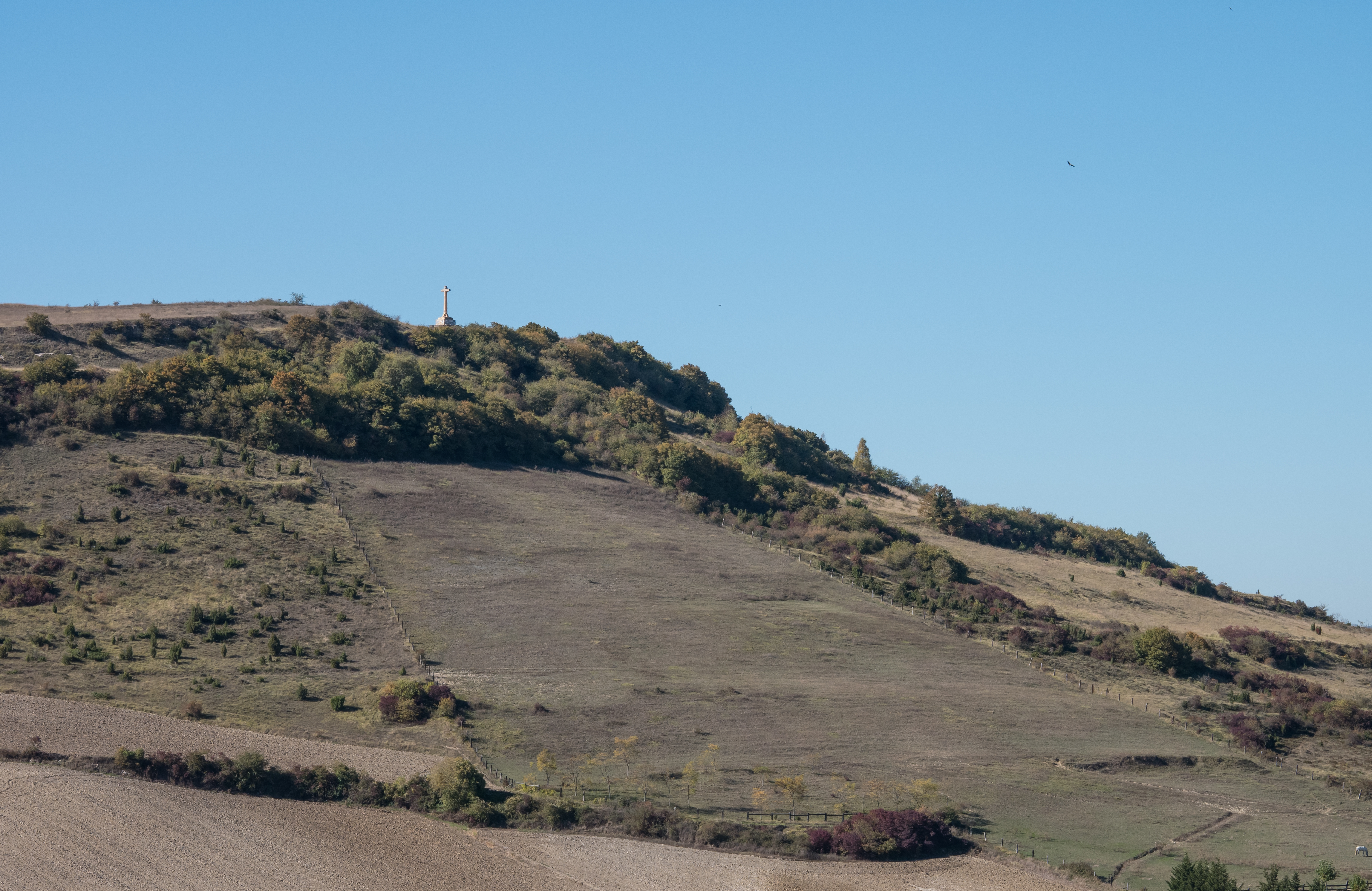 View to Olárizu mountain from Mendiola. Vitoria-Gasteiz. Basque Country, Spain